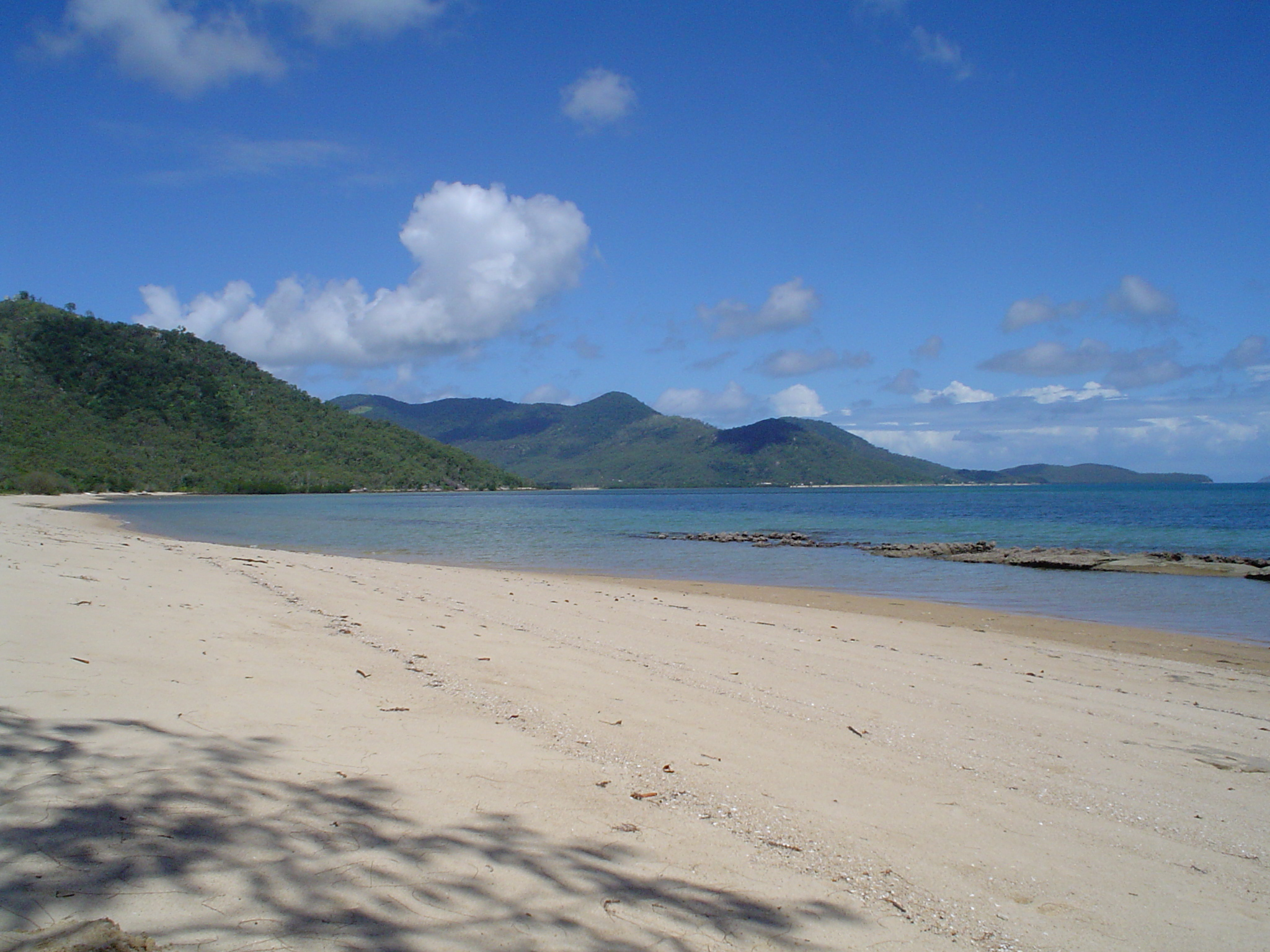 Palm Island, Queensland as viewed from Wallaby Point. The original source of this image is Mr Luke Duyvestyn who took these photos himself on Palm Island, they were uploaded to YouTube (here: by Mr Duyvestyn's son, I User:WikiTownsvillian e-mailed Mr Duyvestyn (original contact made through e-mailing his son) who agreed to granted permission under the GNU Free Documentation License, a copy of my e-mail and the response I received back have been sent to permissions-en AT wikimedia DOT org. statement I received: I own the copyright to the images mentioned in your email letter. I grant permission to copy, distribute and/or modify this document under the terms of the GNU Free Documentation License, Version 1.2 or any later version published by the Free Software Foundation; with no Invariant Sections, no Front-Cover Texts, and no Back-Cover Texts. Please notify me when you post the photo's as I would like to see the page with them in use. Thanks